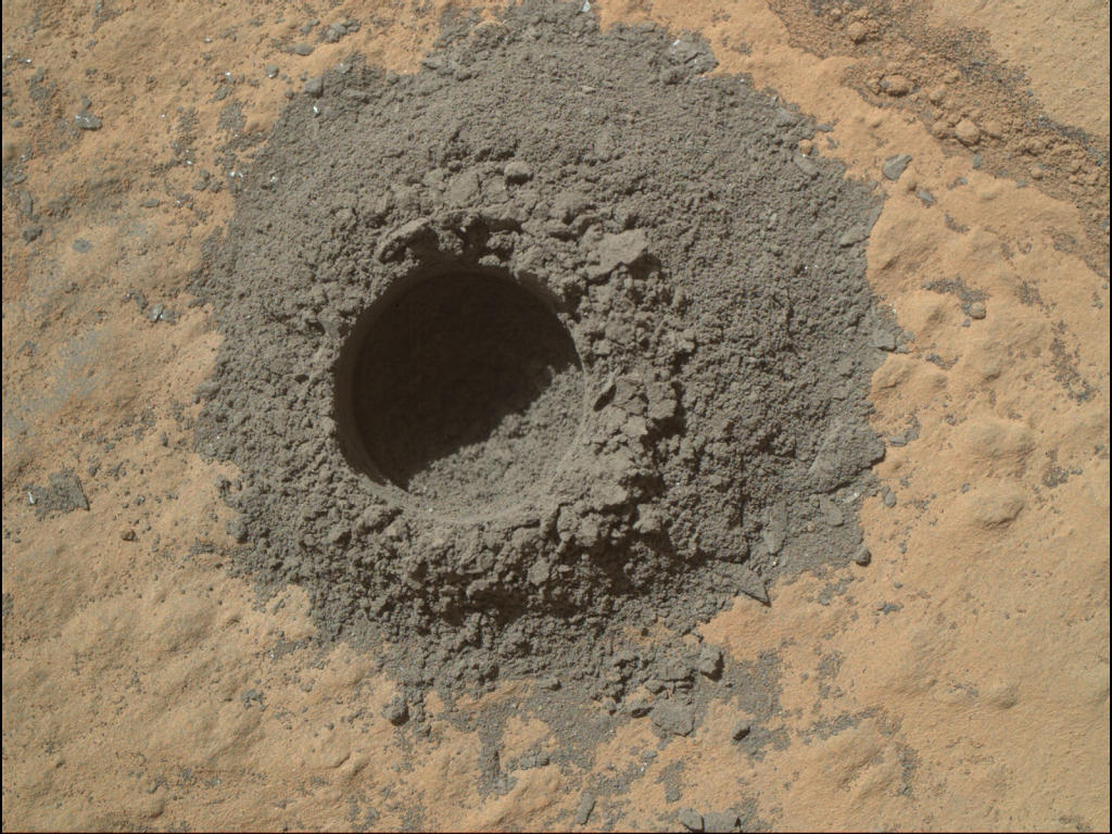 Preparatory Drilling Test on Martian Target 'Windjana' NASA's Curiosity Mars rover completed a shallow "mini drill" activity on April 29, 2014, as part of evaluating a rock target called "Windjana" for possible full-depth drilling to collect powdered sample material from the rock's interior. This image from Curiosity's Mars Hand Lens Imager (MAHLI) instrument shows the hole and tailings resulting from the mini drill test. The hole is 0.63 inch (1.6 centimeters) in diameter and about 0.8 inch (2 centimeters) deep. When collecting sample material, the rover's hammering drill bores as deep as 2.5 inches (6.4 centimeters). This preparatory activity enables the rover team to evaluate interaction between the drill and this particular rock and to view the potential sample-collection target's interior and tailings. Both the mini drill activity and acquisition of this image occurred during the 615th Martian day, or sol, of Curiosity's work on Mars (April 29, 2014). MAHLI was built by Malin Space Science Systems, San Diego. NASA's Jet Propulsion Laboratory, a division of the California Institute of Technology in Pasadena, manages the Mars Science Laboratory Project for the NASA Science Mission Directorate, Washington. JPL designed and built the project's Curiosity rover.